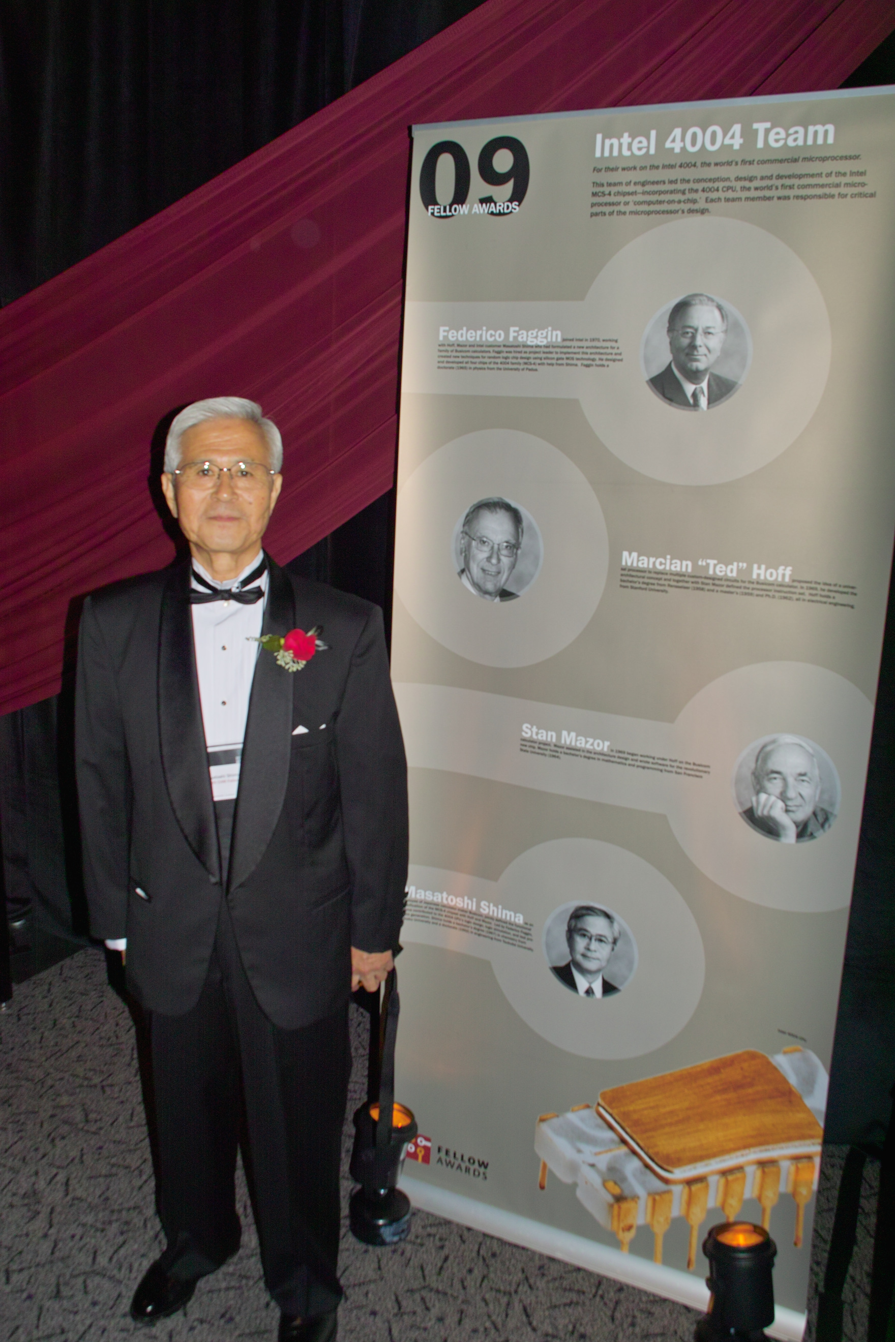 Masatoshi Shima, at the Computer History Museum's 2009 Fellows Award event, where he was inducted a Fellow.